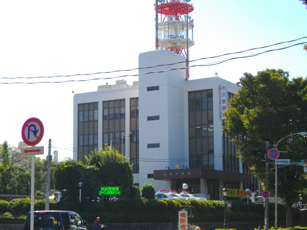 Tokorozawa Police Station